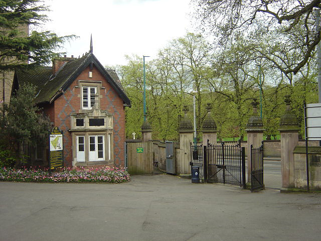 Waverley Lodge and gates, Arboretum The Arboretum dates from 1852-3